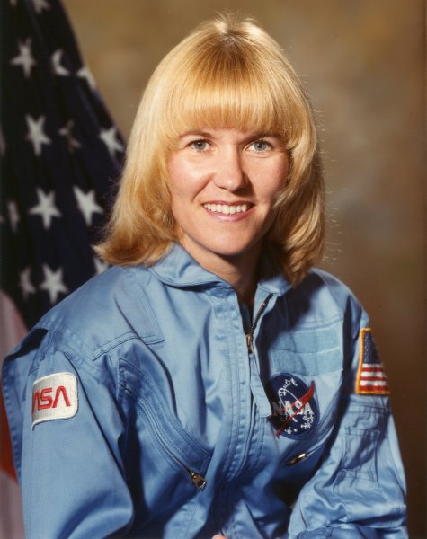 NASA portrait of Mary Helen Johnston